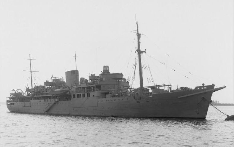 HMS Bulolo secured to a buoy in the Medway.